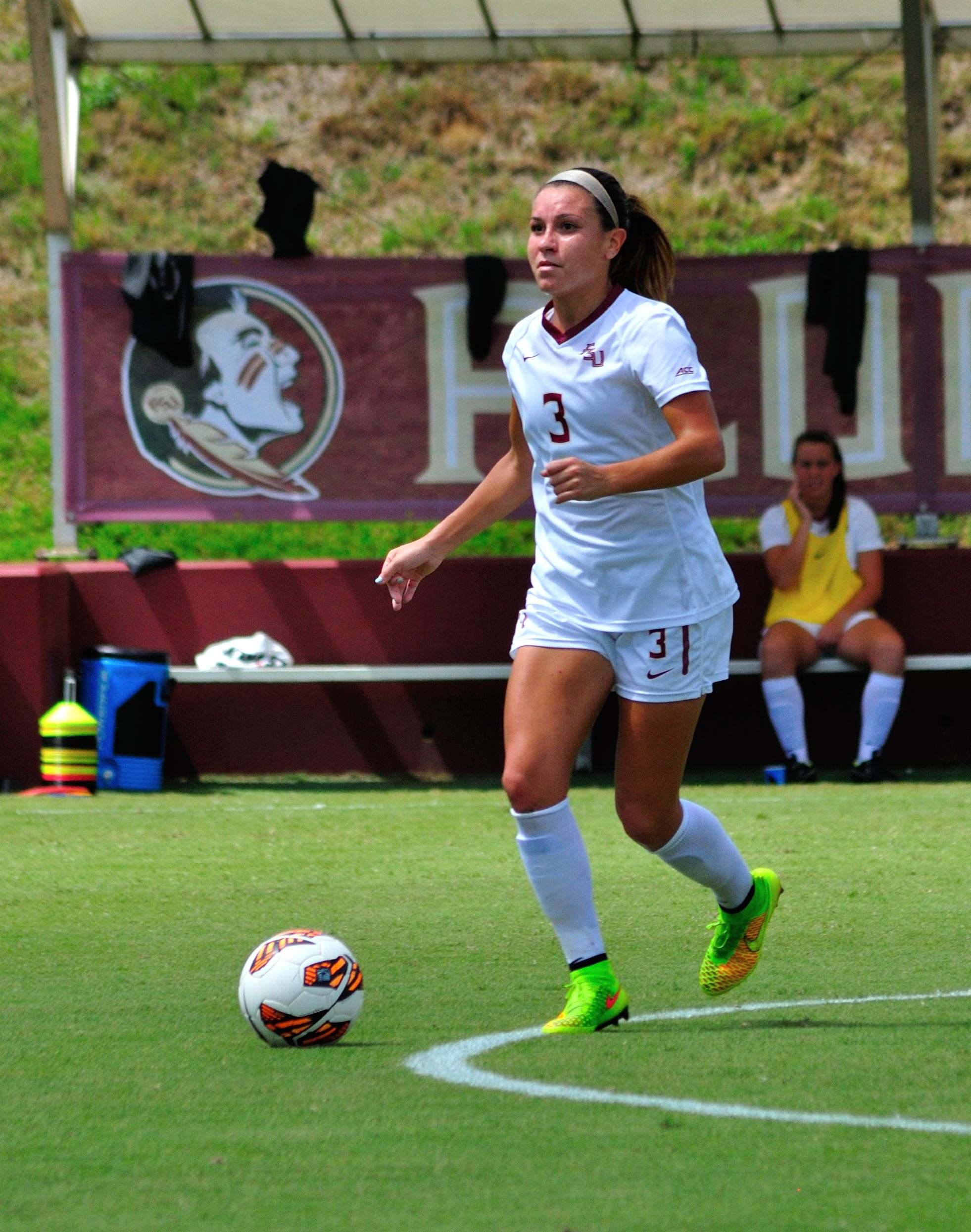 Nickolette Dreisse Moves the Ball